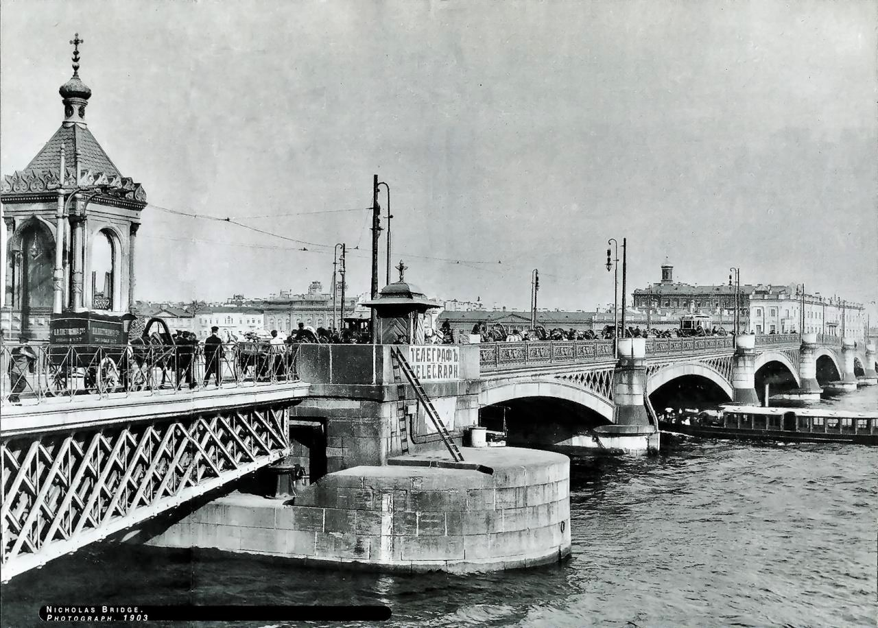 Saint Petersburg (Russia), Blagoveshchensky Bridge.